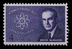 US postage stamp: 4-cent Brien McMahon commemorative stamp issued July 28, 1962. The stamp paid tribute to the late Connecticut senator Atomic Energy Act - Brien McMahon